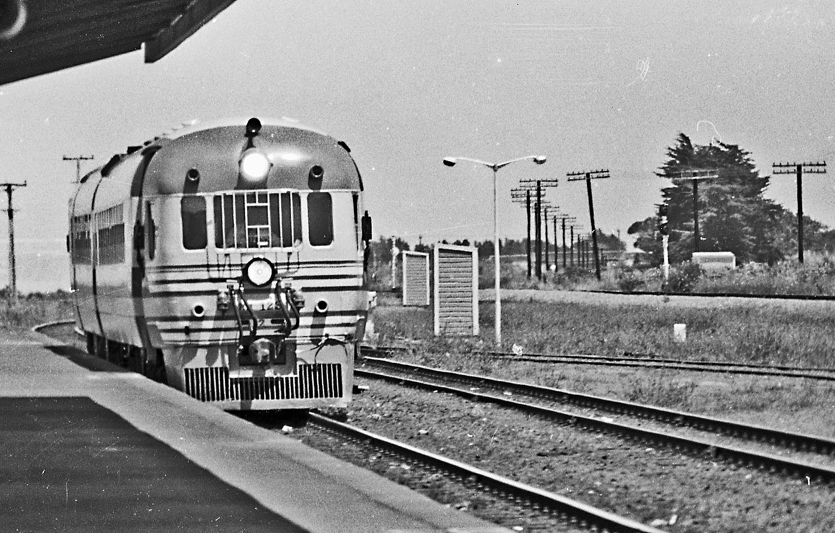 Railcar, Feilding, Manawatu, New Zealand, 1974